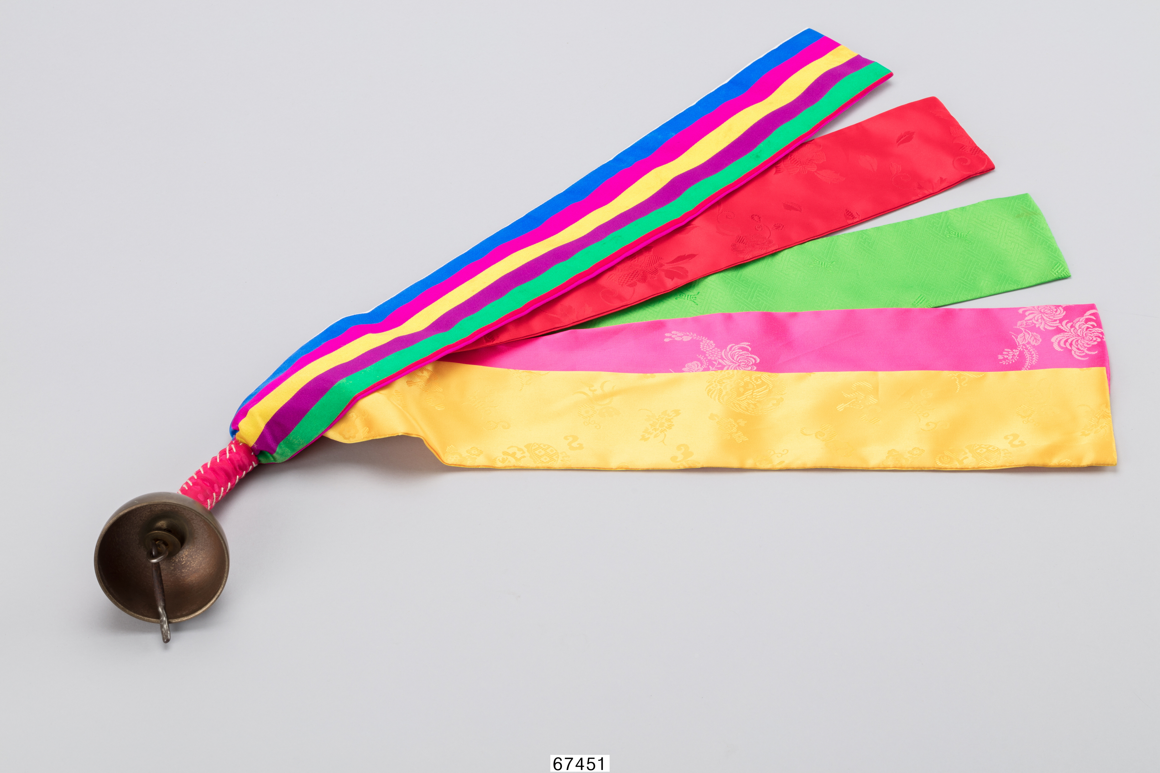 Sacred bell belonging to shaman Yi Jong-chun, one of his mengdu